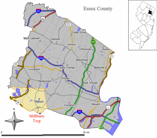 Source: Jim Irwin Original work by Jim Irwin, December 2005.